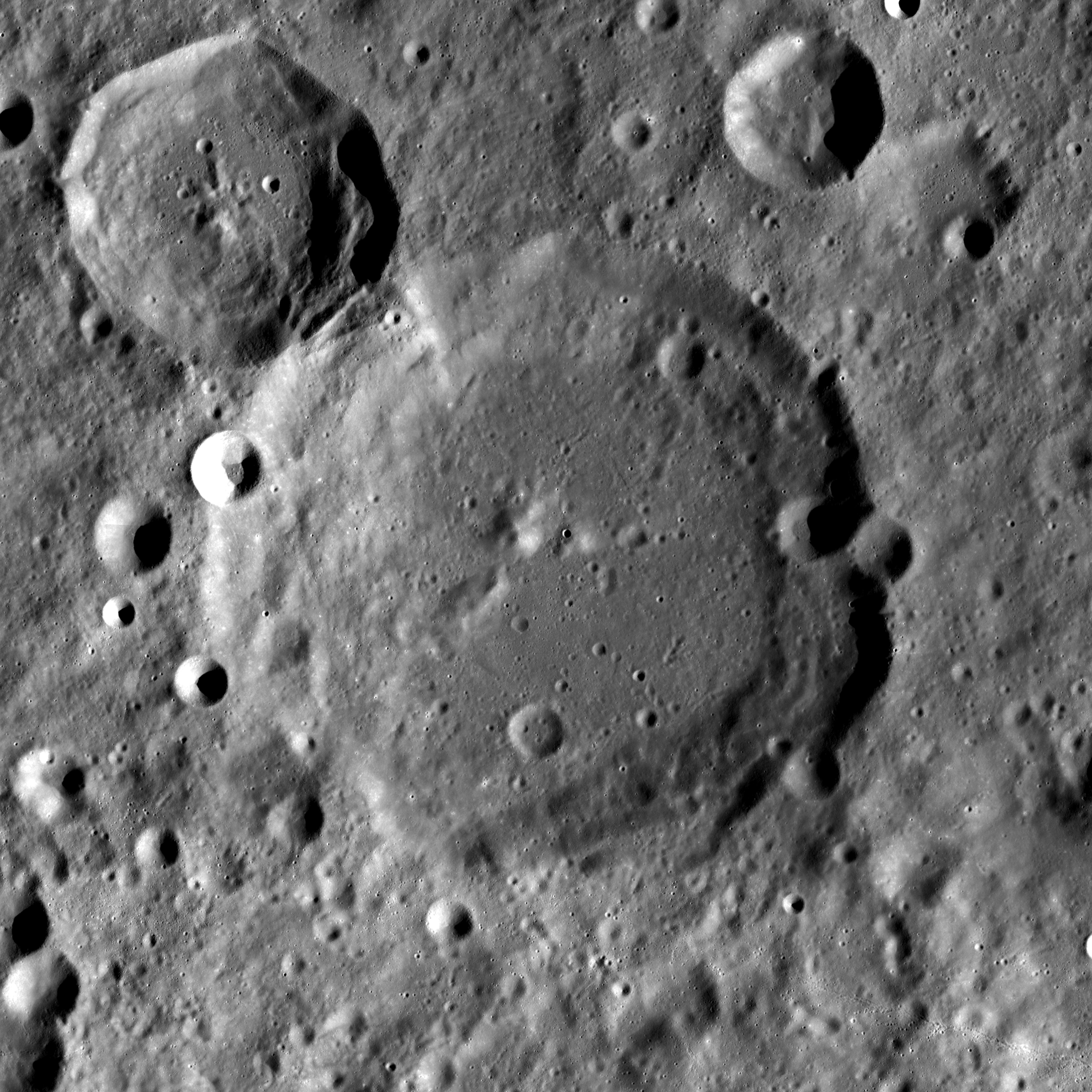 Crater Fitzgerald on the Moon, on the far side. Centered at 26.8°N, 187.9°E (according to JMARS). Mosaic of photos by Lunar Reconnaissance Orbiter, made with Wide Angle Camera. Width of the photo is 164 km, north is up.